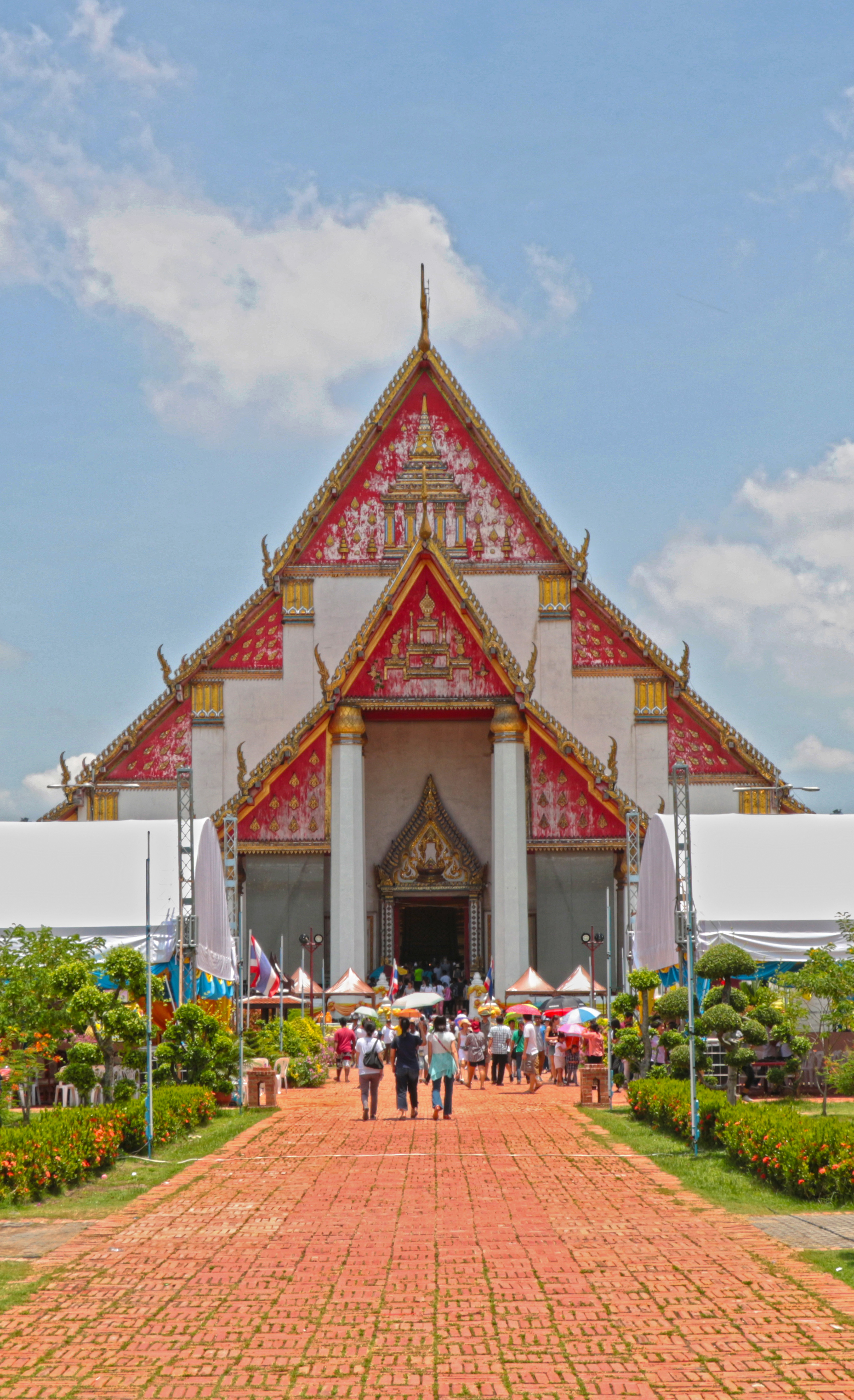 Wihan Phra Mongkhon Bophit, Phra Nakhon Si Ayutthaya District, Phra Nakhon Si Ayutthaya Province, Thailand.